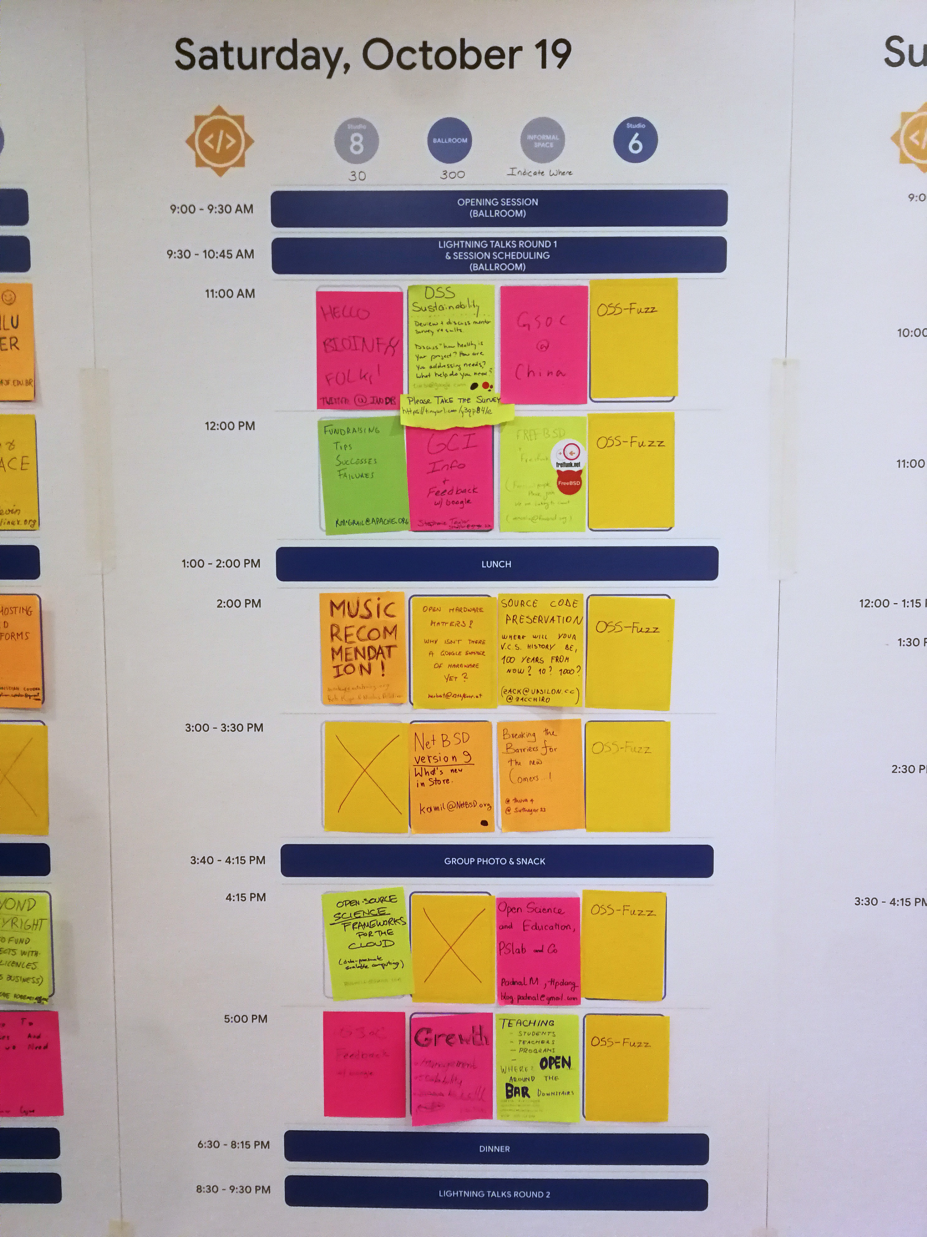 Proposed sessions are written on post-it notes for Saturday October 19, 2019 at the Google Summer of Code Mentor Summit 2019